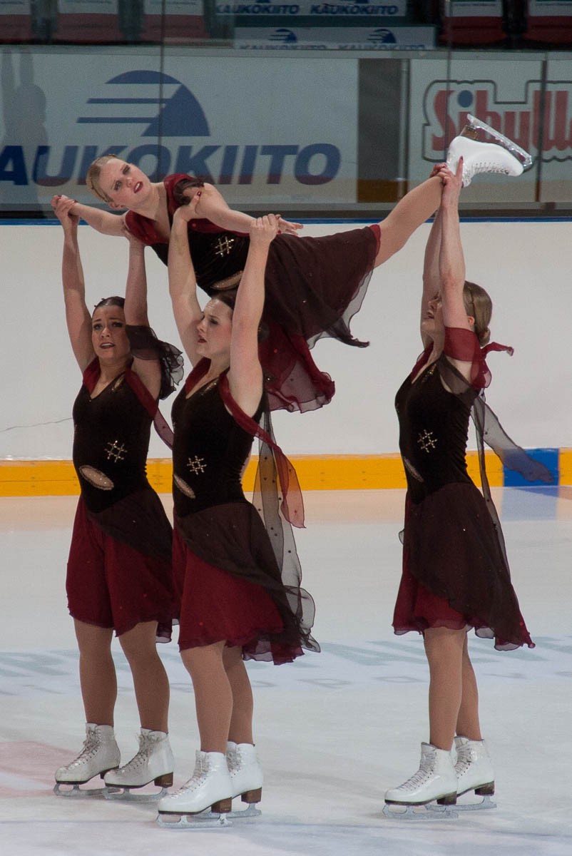 Team Unique, 2nd Qualifiers for Finnish Championships, Helsinki Finland